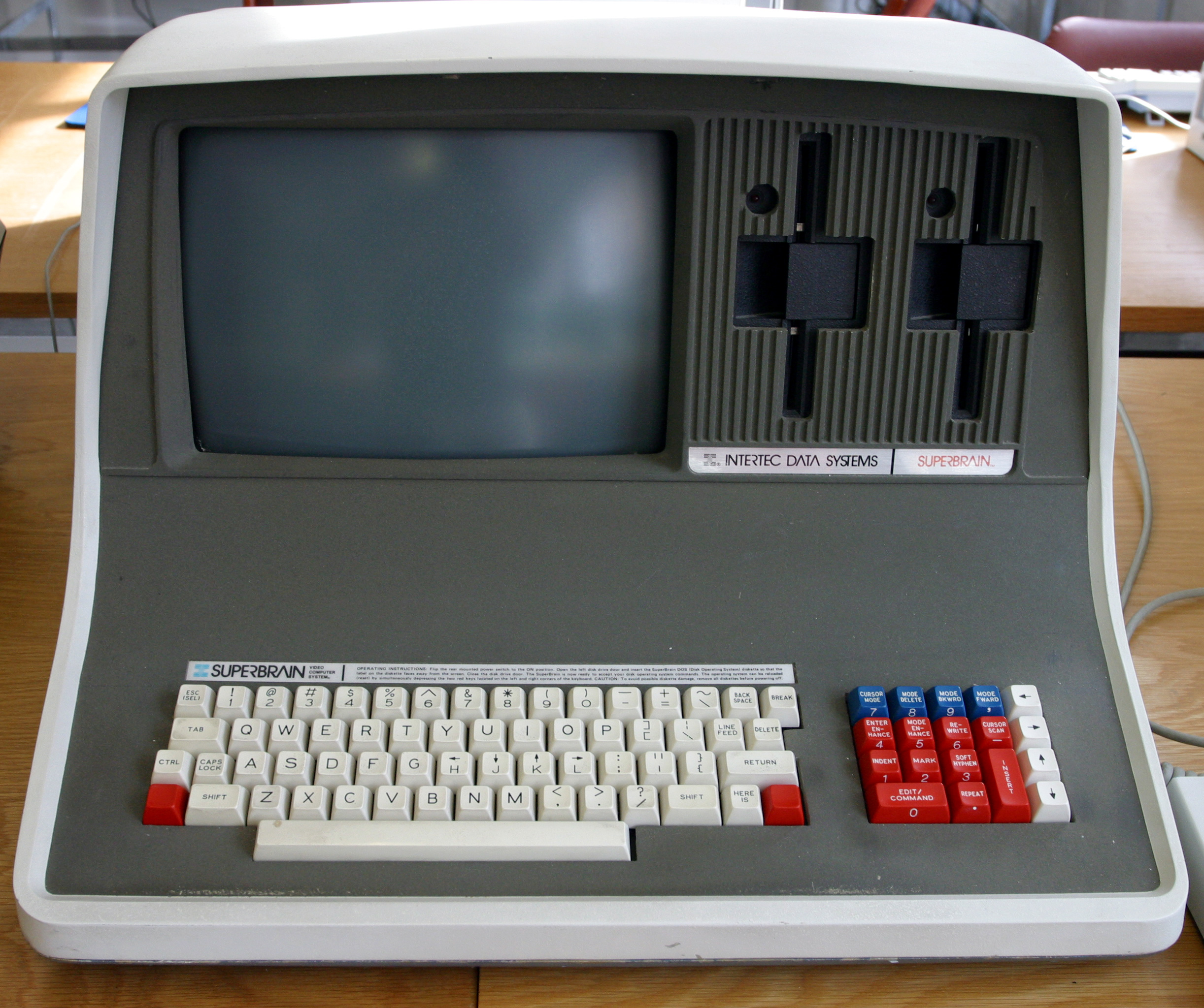 An Intertec Superbrain microcomputer, currently on display at the National Museum of Computing at Bletchley Park in the UK.